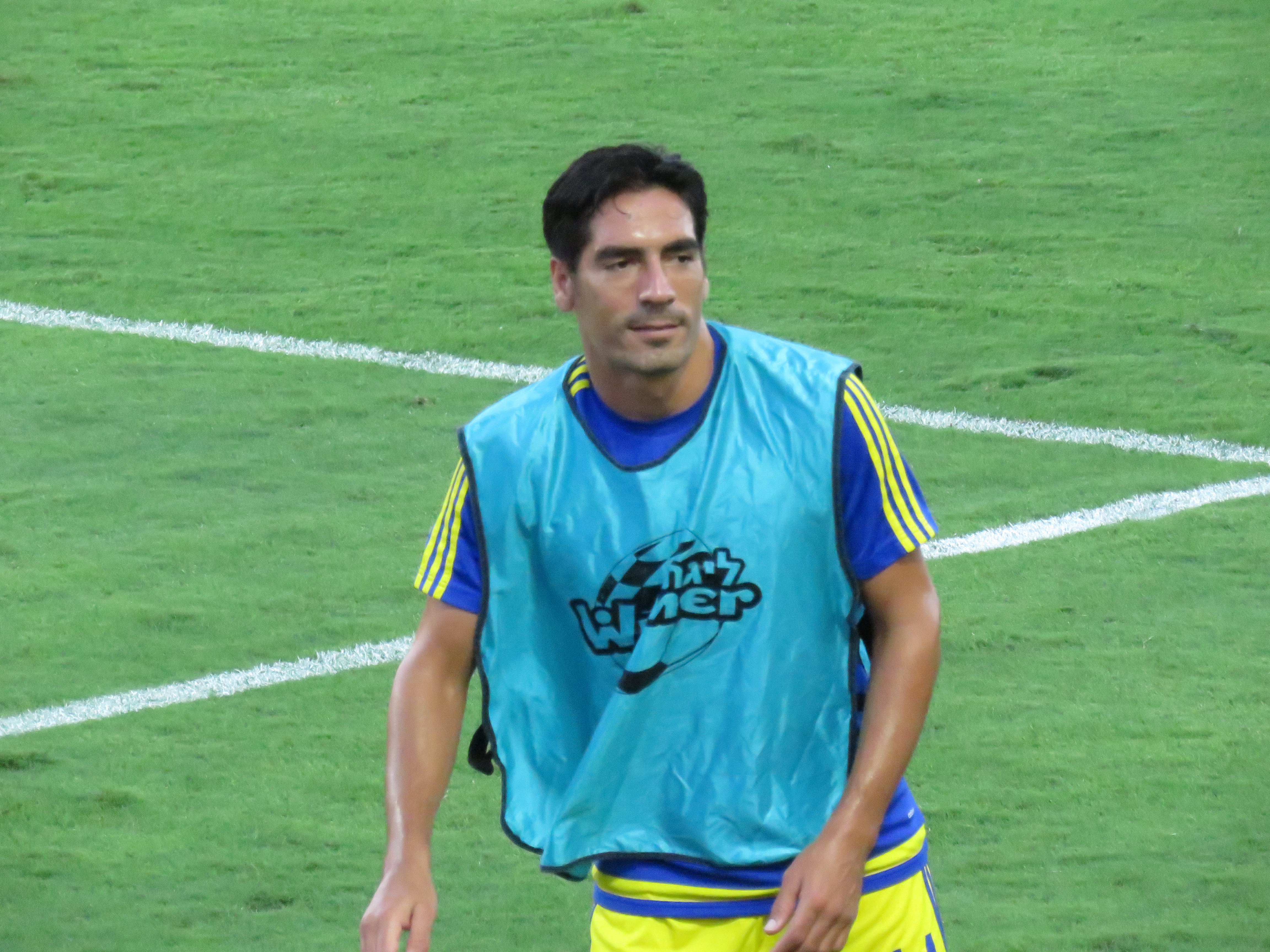 Maccabi Tel Aviv VS. Bnei Sakhnin 22/08/2015